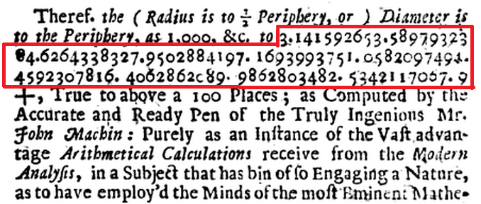 Number π as stated in Synopsis Palmariorum Matheseos (1706) by William Jones: 100 decimal places calculated by John Machin (1680-1751)